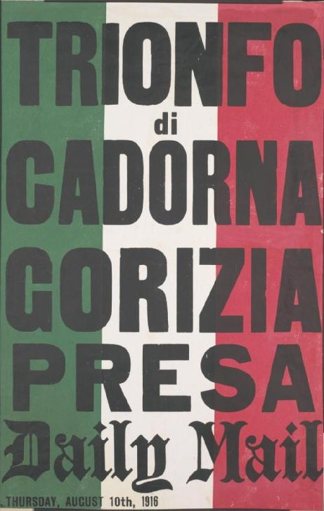 Placard for the Daily Mail : "Trionfo di Cadorna Gorizia Presa" : "Triumph of Cadorna at Gorizia"